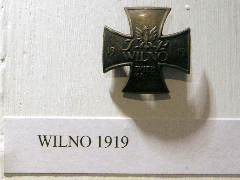 Commemorative badge for the fights over Wilno in the spring of 1919, Polish Army Museum.